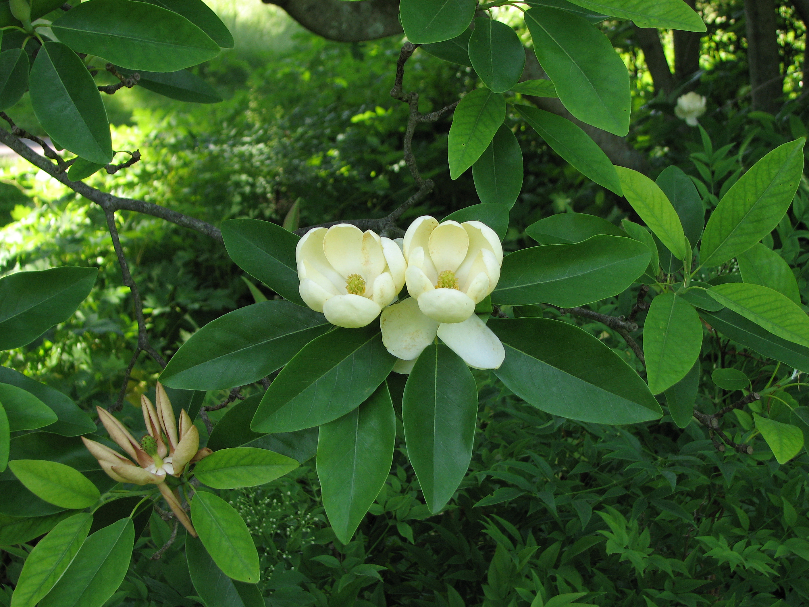 Picture of the flower on the Sweetbay Magnoliaen (Magnolia virginiana en . Photo taken in the near the Tennis Court Garden at the Chanticleer Garden where the species was identified.